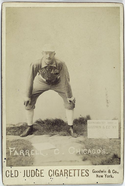 Duke Farrell, Old Judge Cigarettes